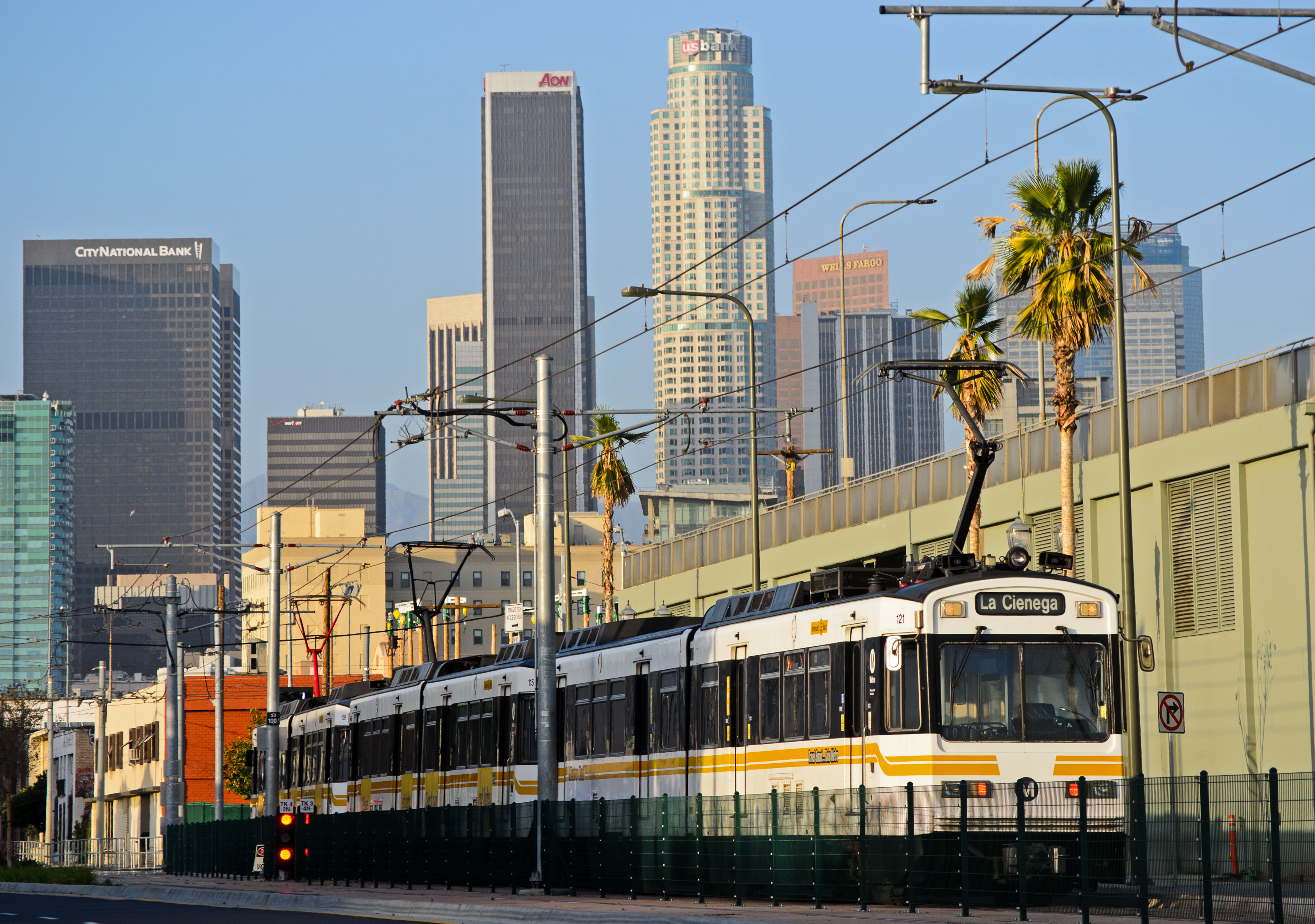 Test train southbound on Flower Street.